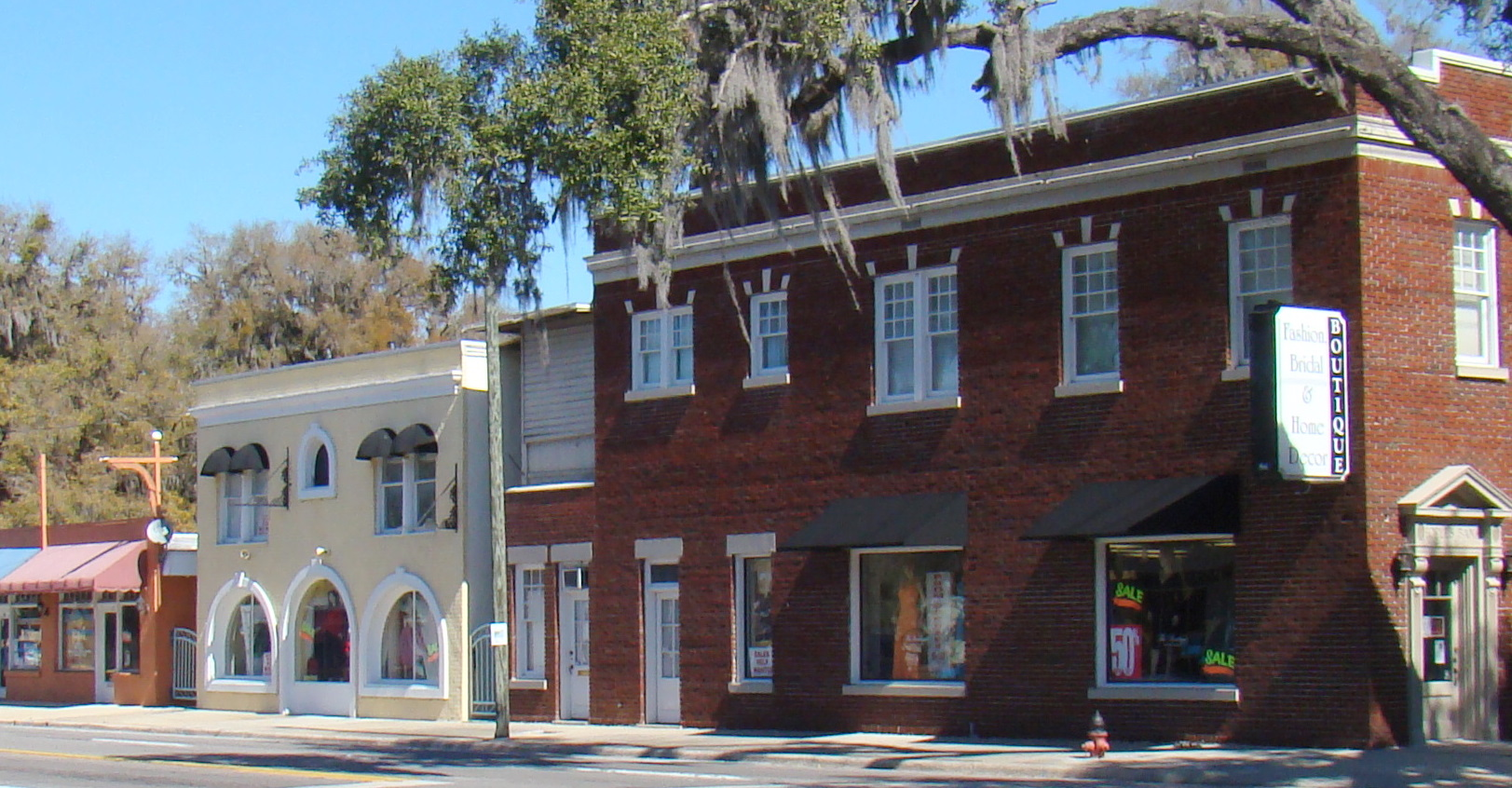 Corner of N. Summit Street and E. Central Avenue in Crescent City, Florida on U.S. Route 17